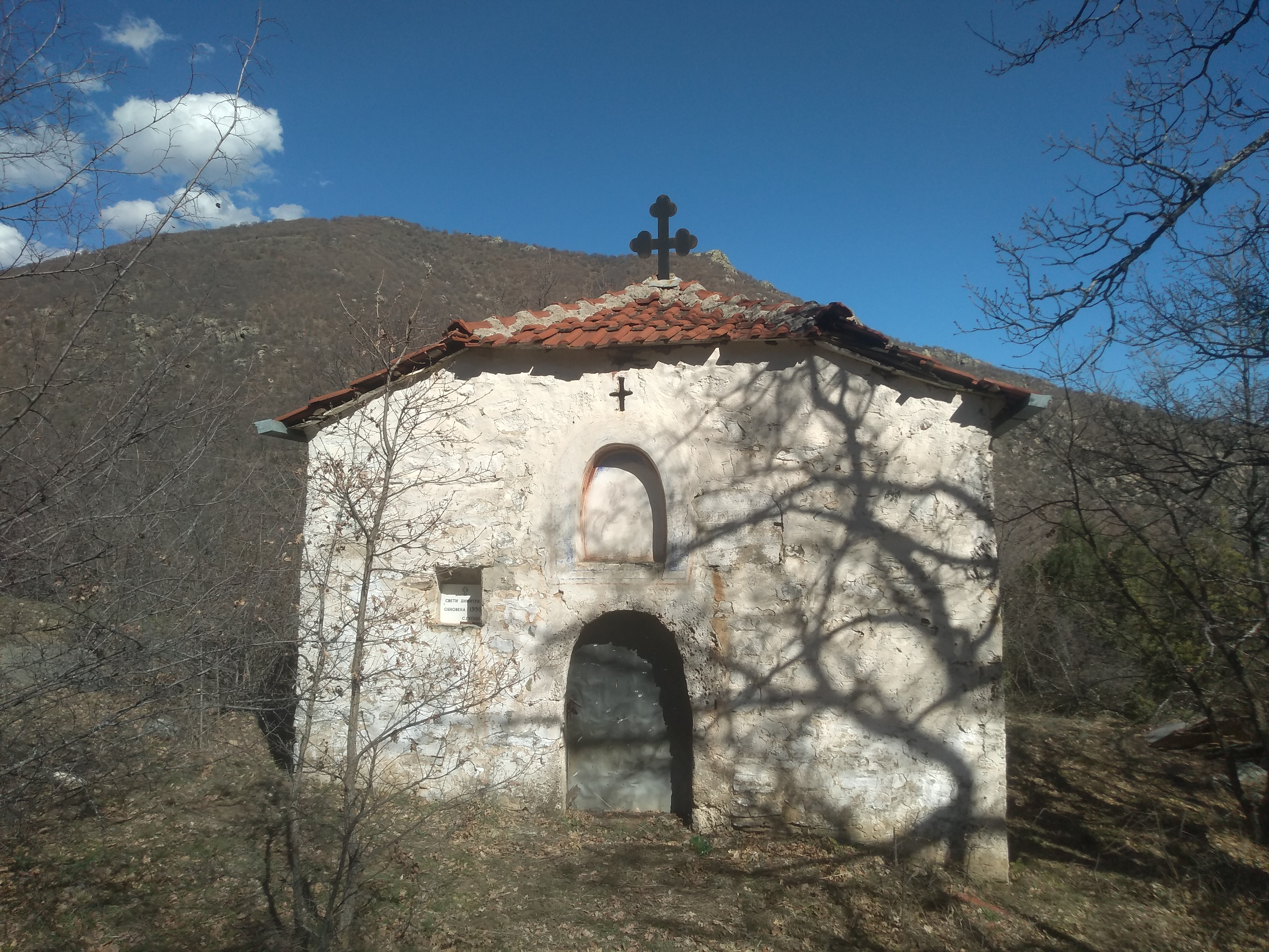 Church of St. Demetrius in Gugjakovo in Mariovo region, Macedonia